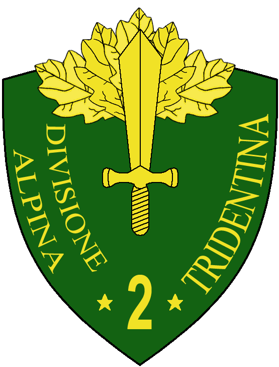 2nd Italian Alpine Division "Tridentina" Coat of Arms (WWII)